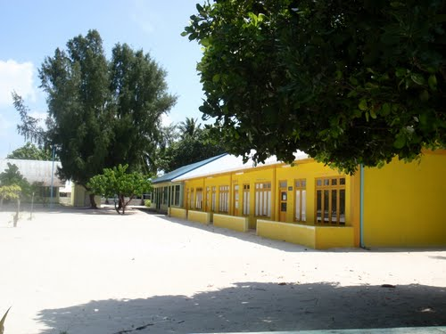 Ukulhas Scool